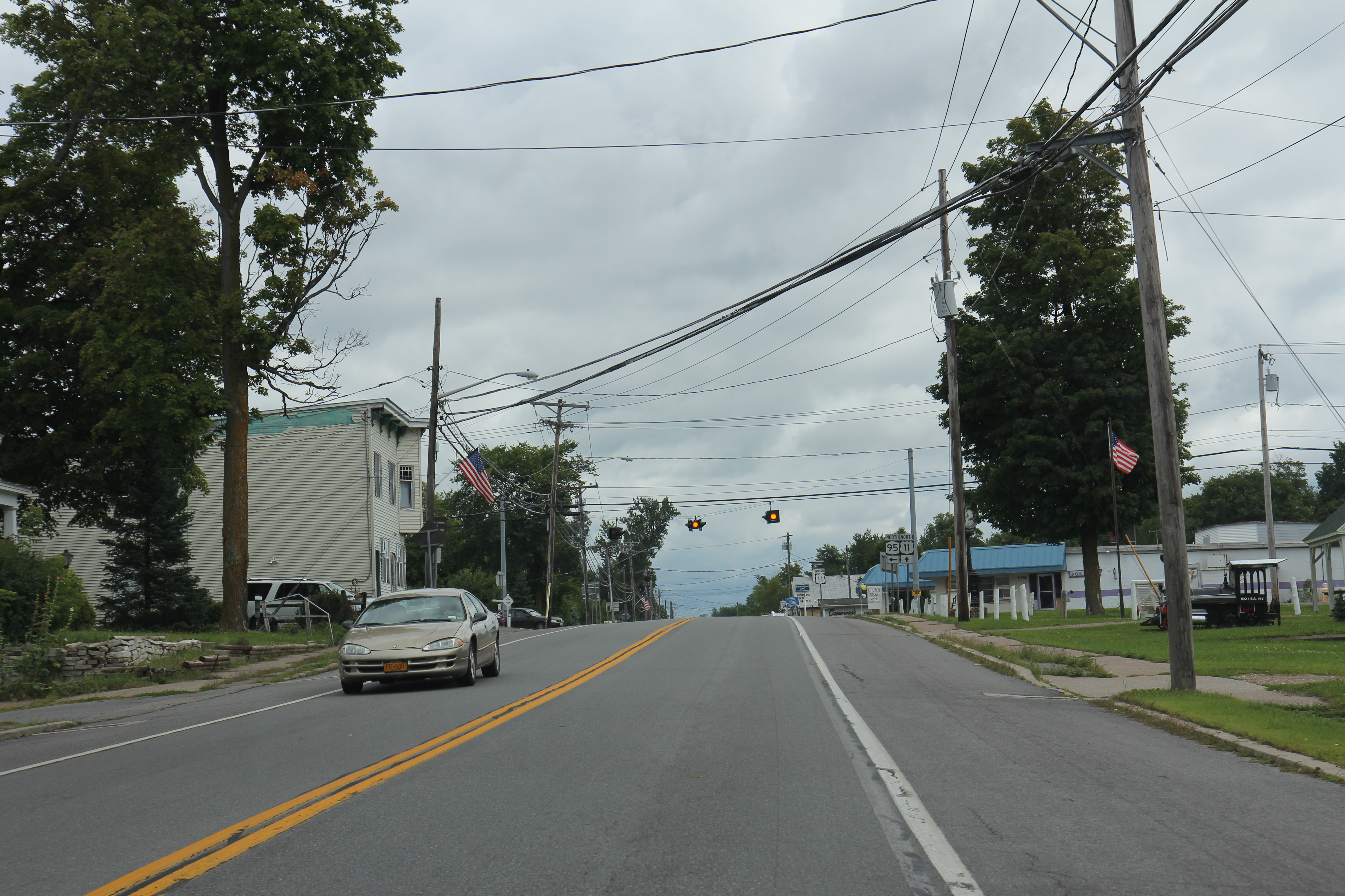 Downtown in the hamlet of Moira, New York on U.S. Route 11